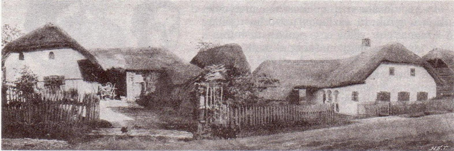 The village Dankovci (hung. Őrfalu) in the Prekmurje